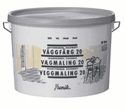 Wall paint